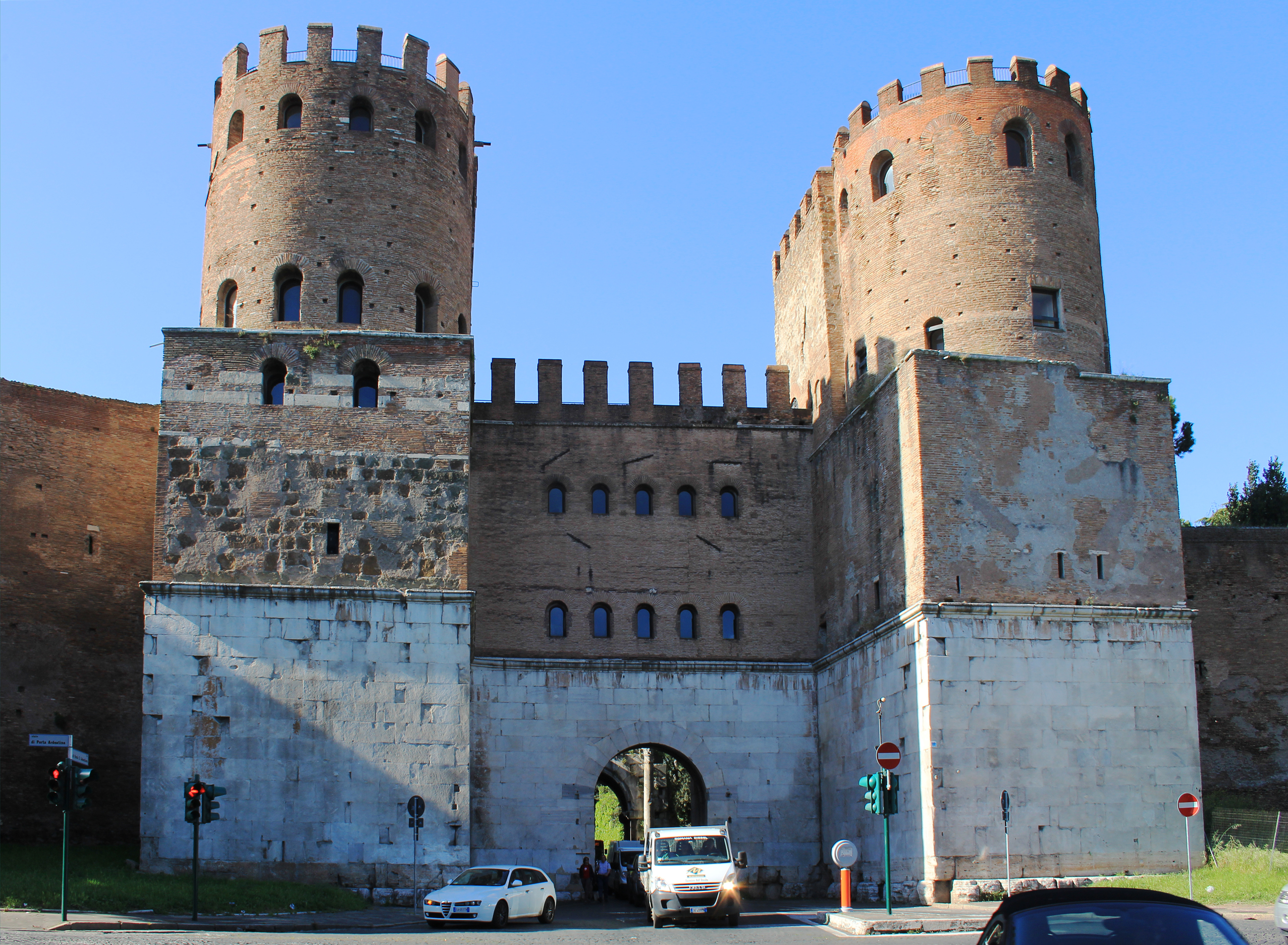 Entrance port into old Rome city Porta san Sebastiano in Aurelian Walls, Italy